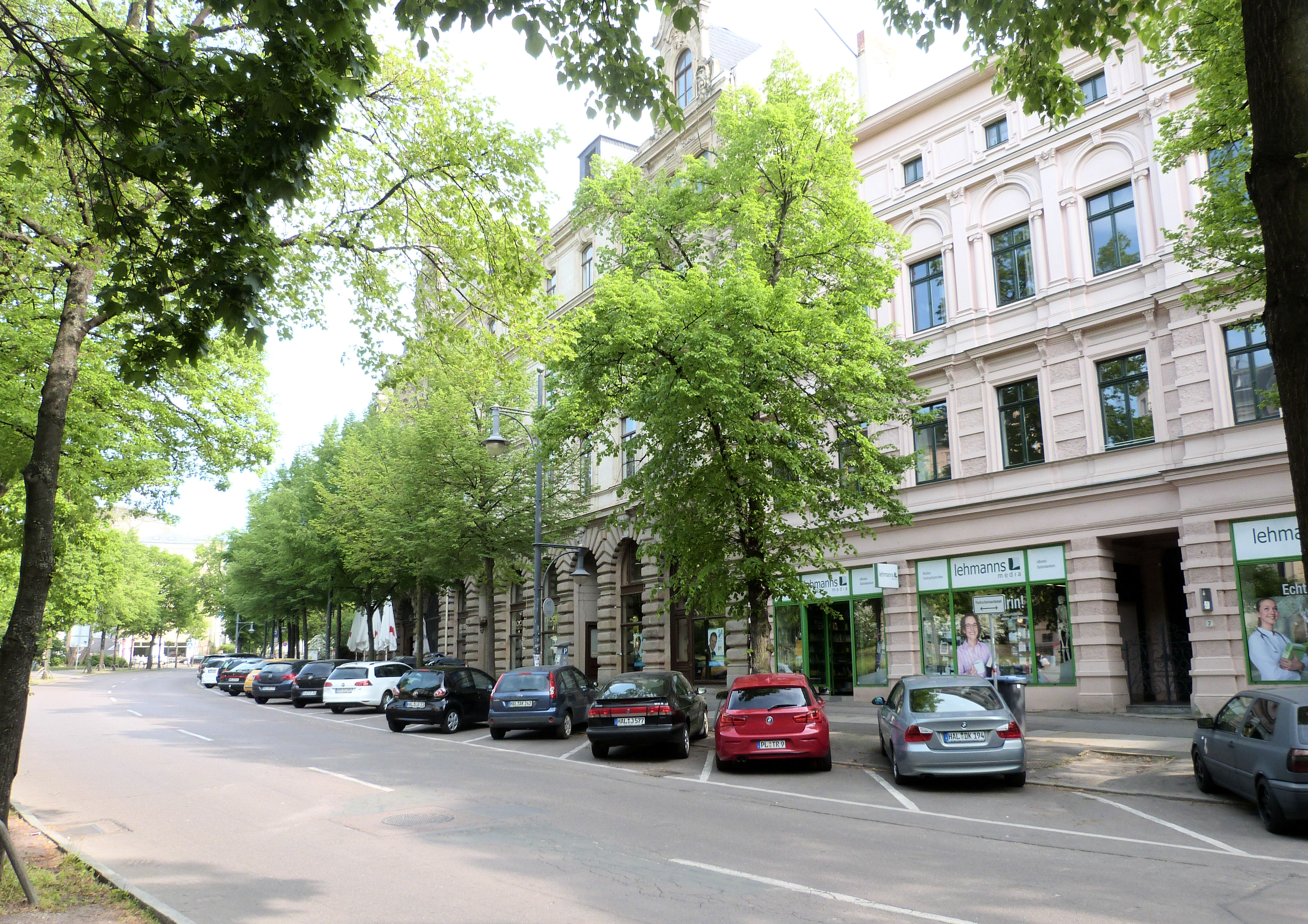 Street Universitätsring in Halle (Saale)